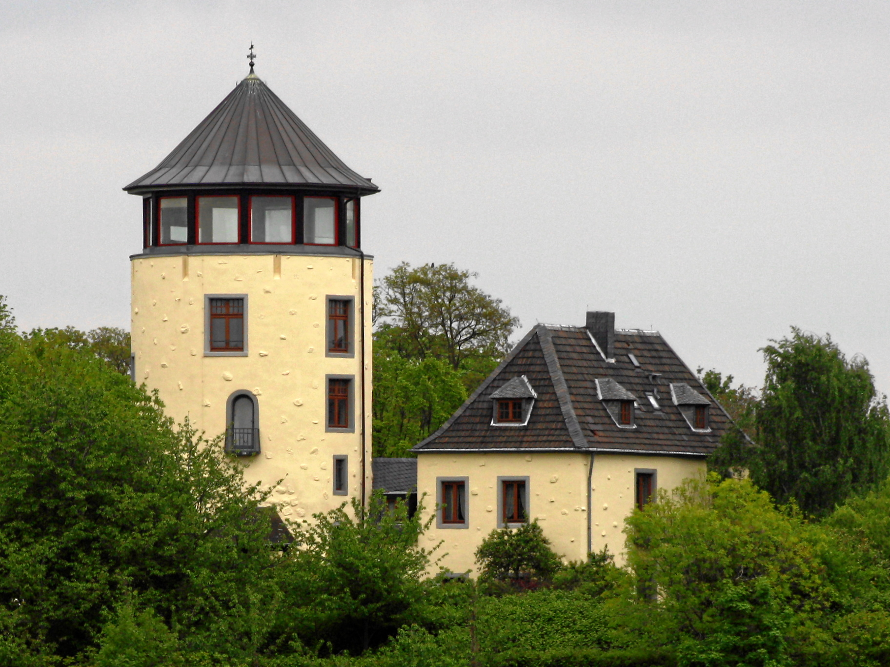 Niederkassel-Lülsdorf, Germany. Castle, exterior view from South.